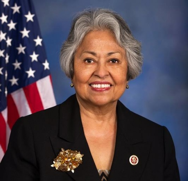 Congresswoman Gloria Negrete McLeod